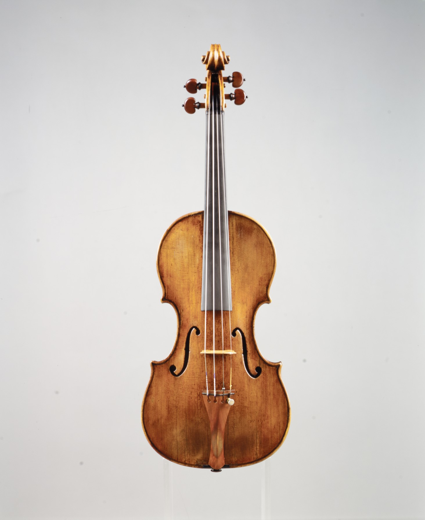 Italian; Violin; Chordophone-Lute-bowed-unfretted